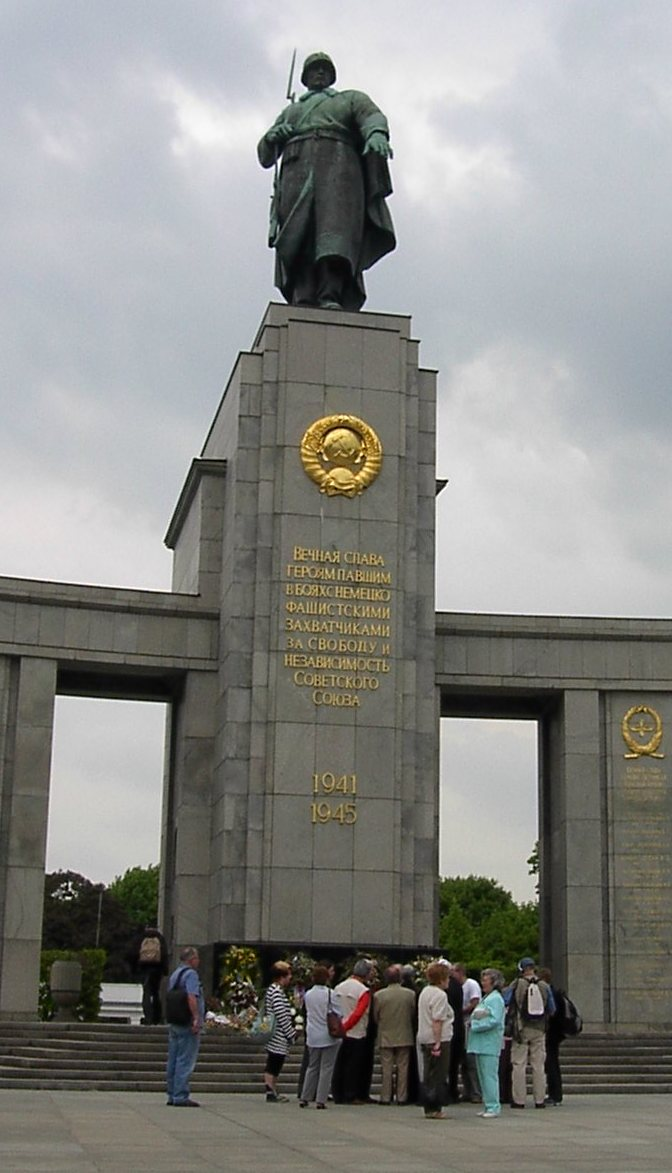 Berlin - Soviet Cenotaph in Berlin-Tiergarten